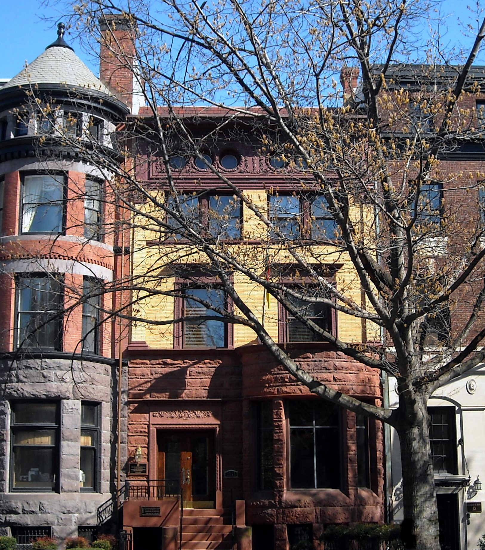 The Embassy of Mozambique located at 1525 New Hampshire Avenue, NW in the Dupont Circle neighborhood of Washington Constructed in 1895 for Rear Admiral Bartlett J. Cromwell, the Richardsonian Romanesque building is a contributing property to the Dupont Circle Historic District and valued at $2,770,770. Notable past owners of the building include the government of Slovenia (former embassy), the Environmental Action Foundation (later known as Environmental Action, Inc.), and the US Association for the Club of Rome.